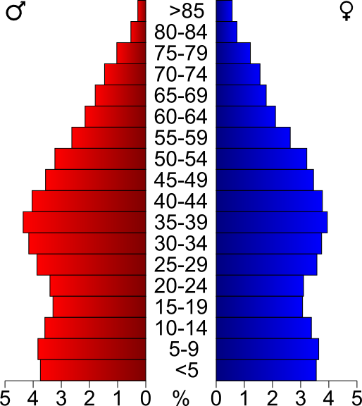 Age pyramid for Nevada, United States of America, based on census 2000 data